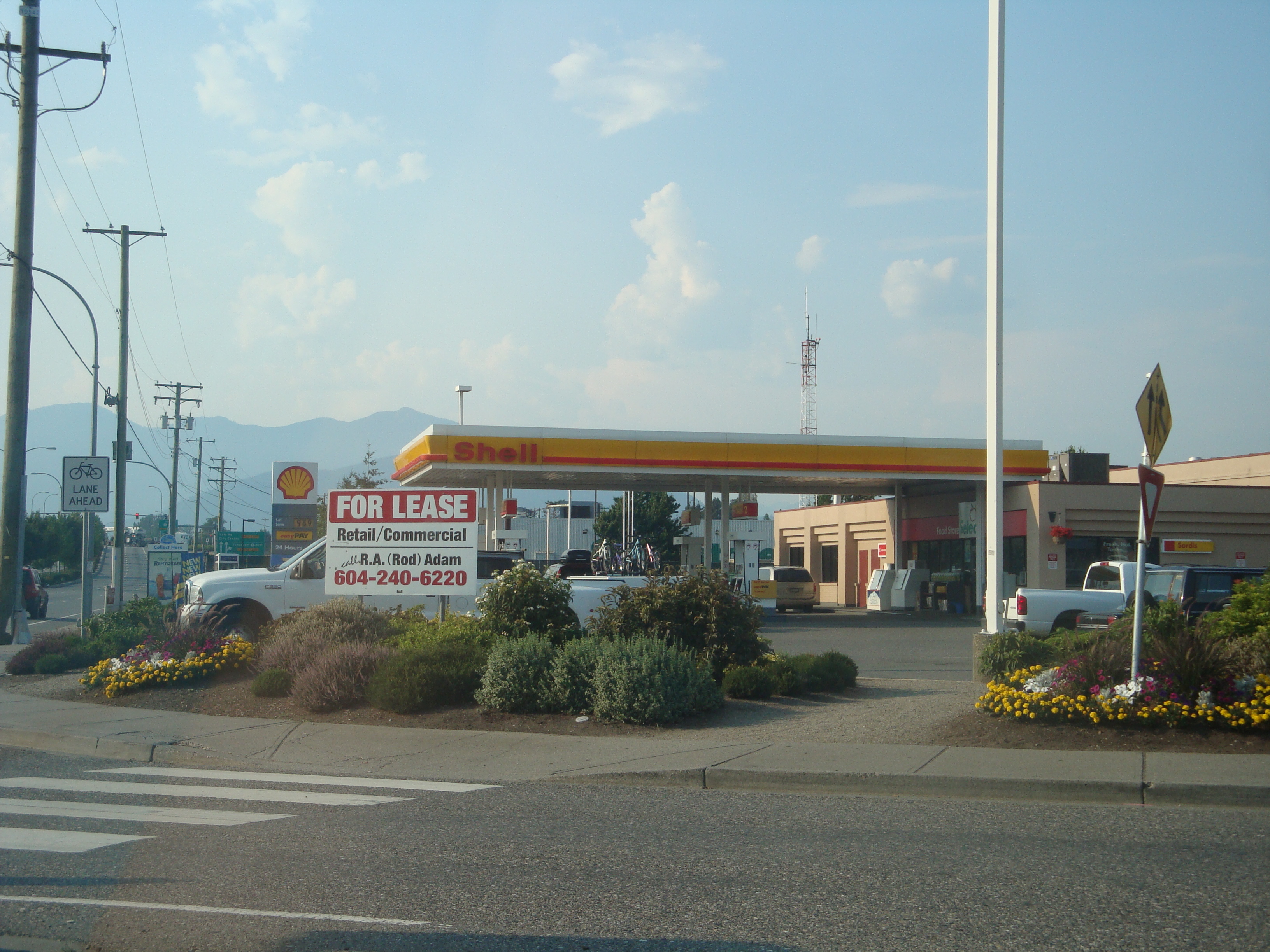 A Shell Station on the corner of Vedder Road & Luckakuck Way in Chilliwack, British Columbia. For additional details on this image, see File talk:Shell in Chilliwack.jpg.